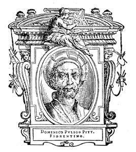 Illustratio from "Le Vite" by Giorgio Vasari, edition of 1568. For the artist portrayed see filename